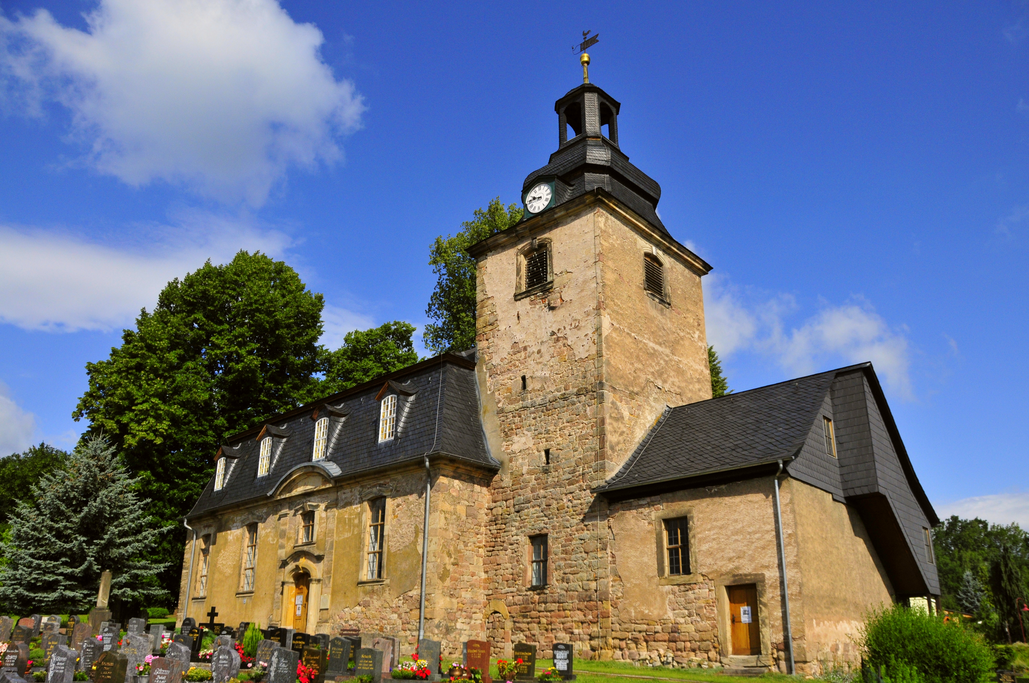 Church in the village Langenhain near Waltershausen